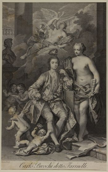 Copper engraving of a painting portrying famous castrato singer Carlo Broschi, better known by his artist name Farinelli, as crowned by the muses. Engraving made of a painting made by Jacopo Amigoni (1682–1752) Alternative names Santiago Amiconi, Giacomo AmiconiDescriptionItalian painterDate of birth/death 1682 1752Location of birth/death Naples MadridWork location Venice, Southern Germany, England (1730-1739), Madrid (since 1747)Authority control : Q380897 VIAF: 30333378 ISNI: 0000 0001 1614 877X ULAN: 500016473 LCCN: n85017708 WGA: AMIGONI, Jacopo WorldCat creator QS:P170,Q380897 Engraving made by Joseph Wagner (1706–1780) Alternative names Giuseppe WagnerDescriptionGerman graphic artistDate of birth/death 1706 1780Location of birth/death Thaldorf VeniceWork periodBaroqueera QS:P2348,Q37853Work location VeniceAuthority control : Q11728479 VIAF: 17494731 ISNI: 0000 0000 6629 5199 ULAN: 500020794 LCCN: nr2001036595 GND: 121772624 WorldCat creator QS:P170,Q11728479 The painting itself can be found here. On the connection between Amigoni, Wagner and Farinelli see the entry on Joseph Wagner in the German Wikipedia.